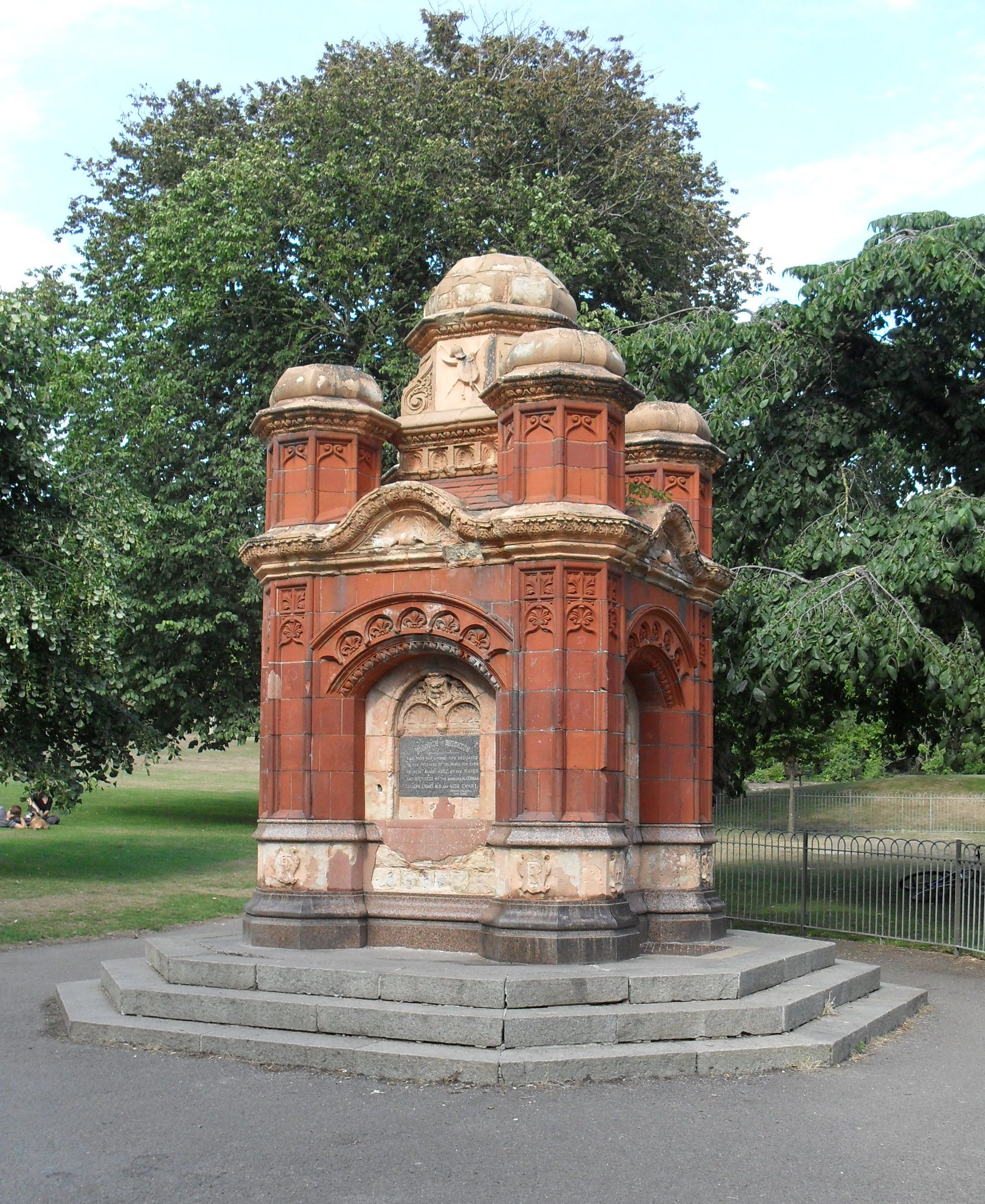 Drinking Fountain at Queen's Park, Brighton, City of Brighton and Hove, England. An octagonal brick and terracotta structure designed by Francis May in 1893. Listed at Grade II by English Heritage (IoE Code 481103)